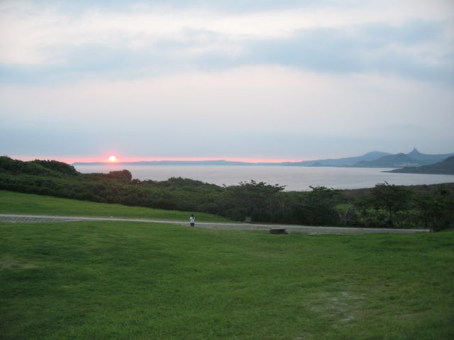 Sunset from Erluanbi Lighthouse in Southern Taiwan.